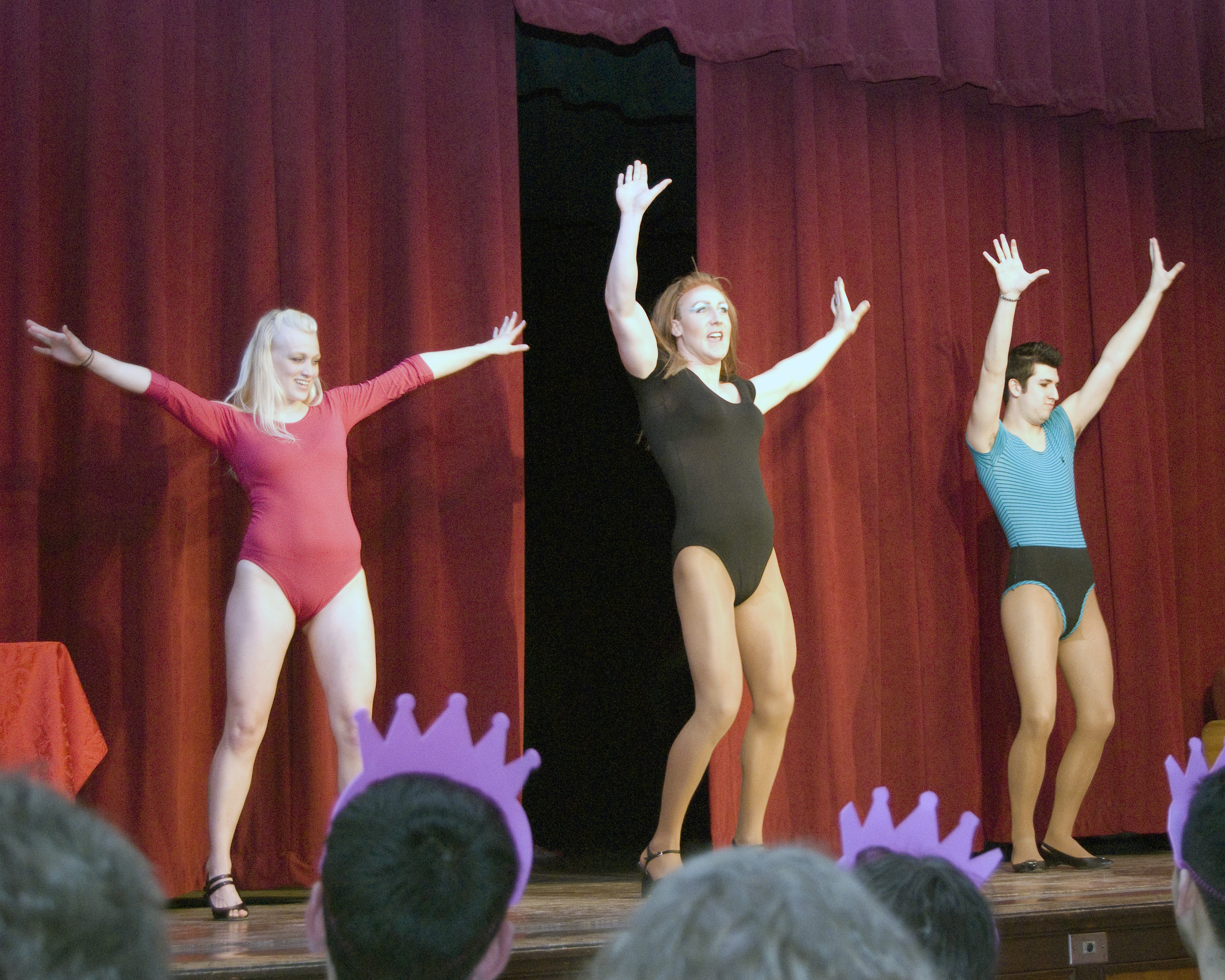 A dance routine inspired by "Single Ladies (Put a Ring on It)" at a drag show